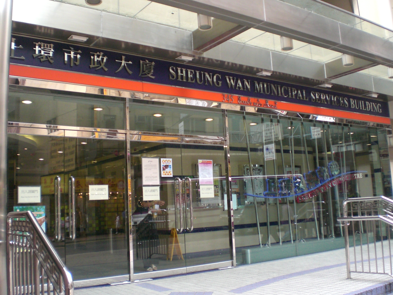 Author= DaviSements 上環市政大廈